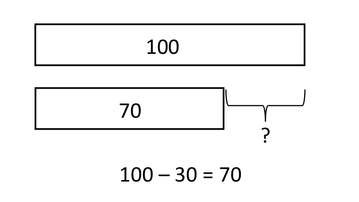 A comparison model used to solve a subtraction problem. This pictorial approach is typically used as a problem-solving tool in Singapore math.